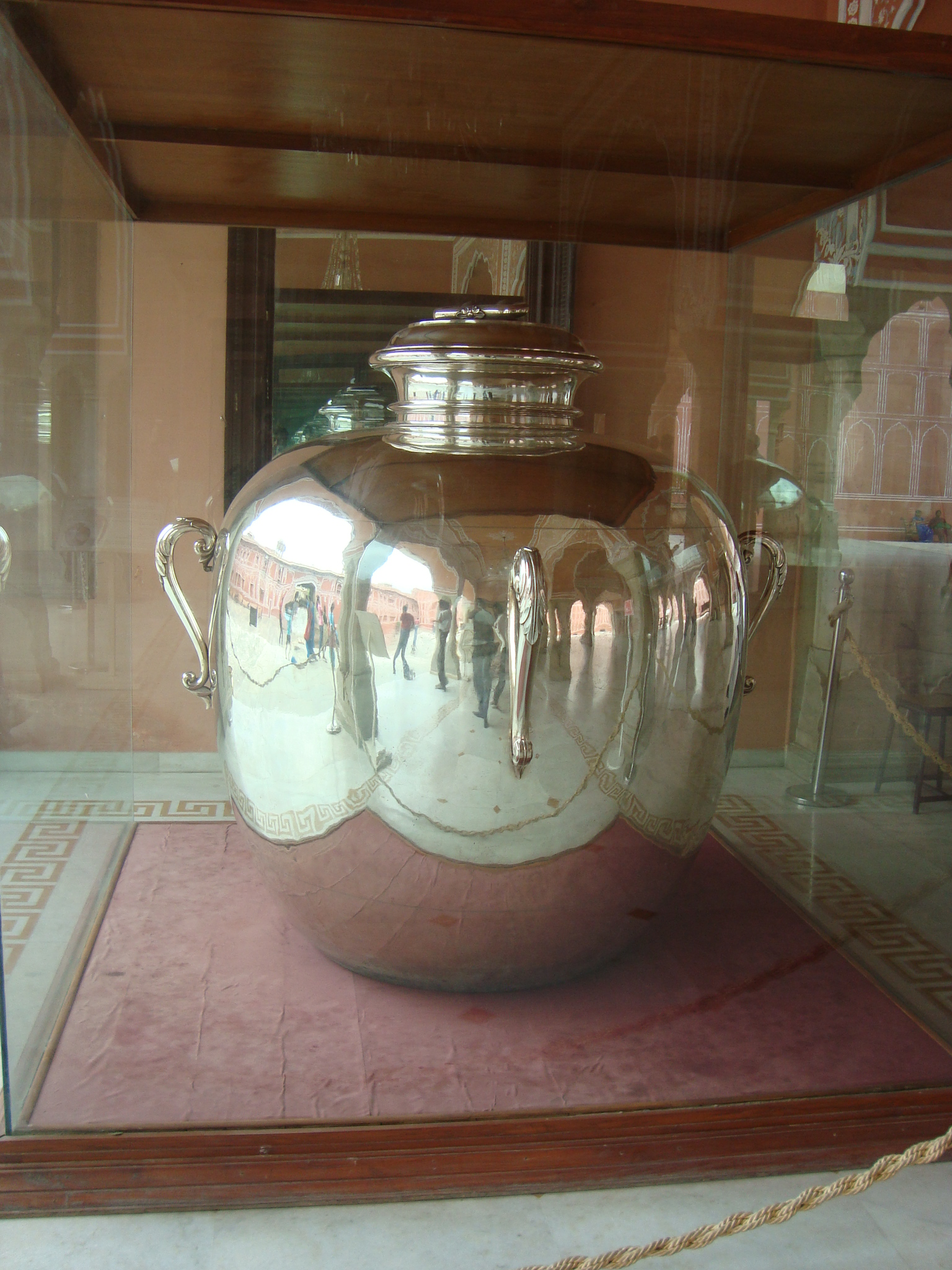 A silver pot named Gangajali displayed at Diwan-i Khas of City Palace, Jaipur